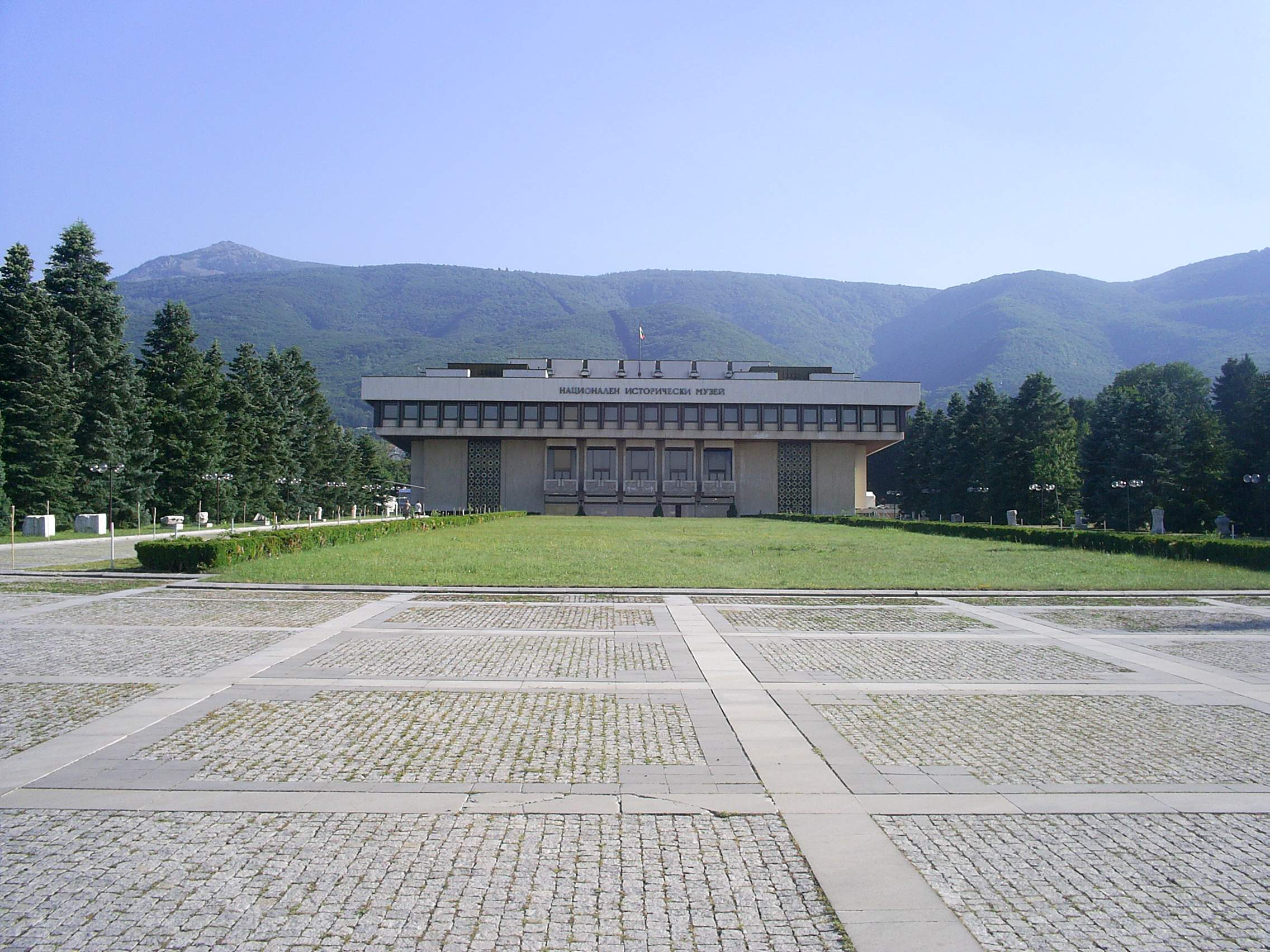 The National historical museum, Sofia, Bulgaria